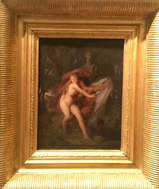 Nackte mit Faun, Öl auf Ln, Rom, 1868